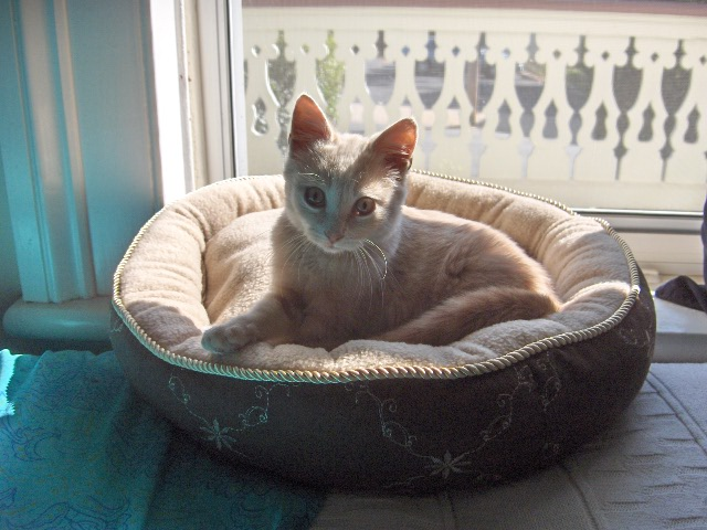 American Shorthair Domestic Cream Colored Kitten